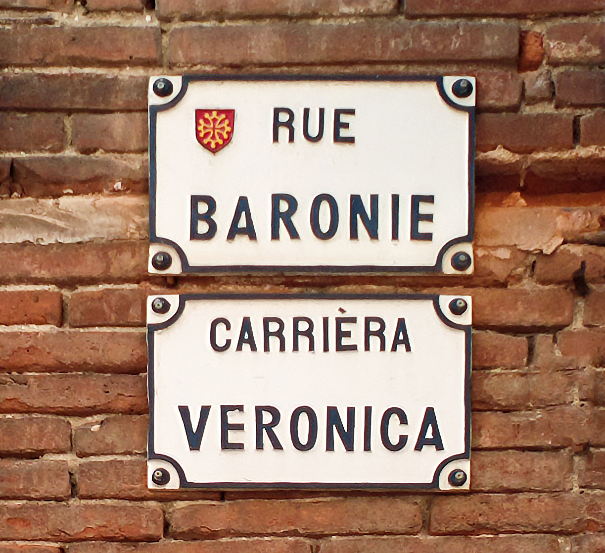 Street name sign in Toulouse. They have the particularity of being: in French and Occitan. Rue Baronie.